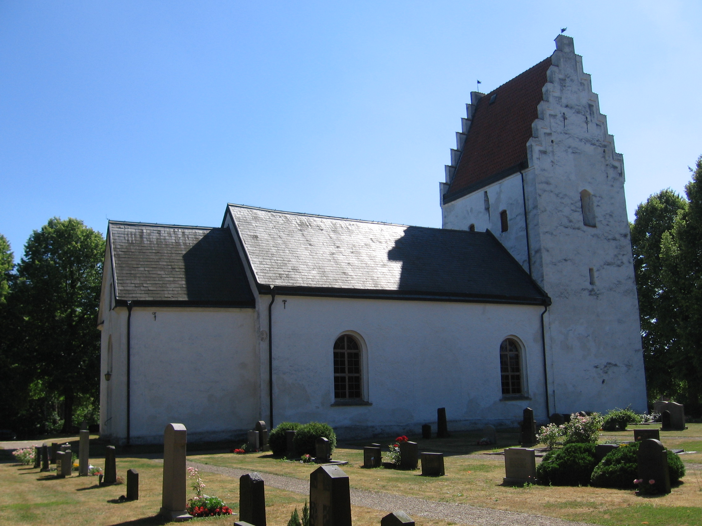 Church of Degeberga, southern Sweden.